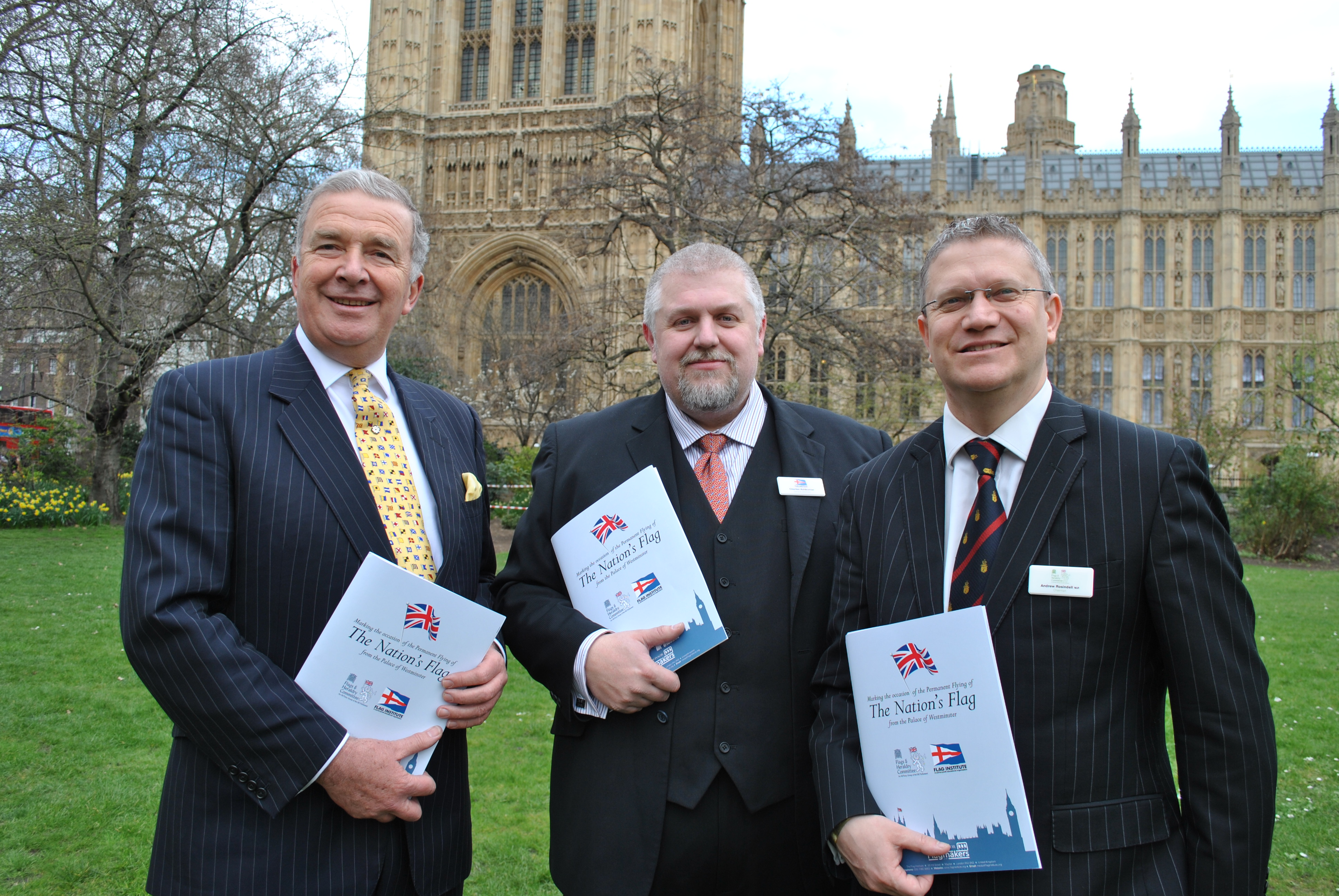 Admiral Lord West, Charles Ashburner, and Andrew Rosindell MP celebrating the permanent flying of the nations flag over the Houses of Parliament 22 March 2011